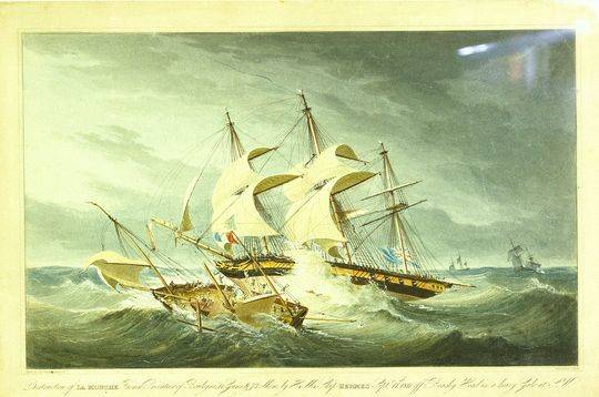 Destruction of La Mouche French Privateer of Boulogne.... by H.M. Ship Hermes Septr 14th 1811 off Beachy Head in a heavy Gale.